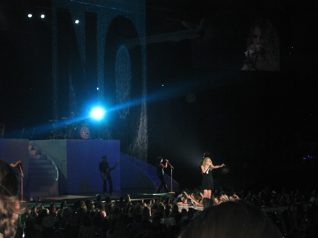 Taylor Swift Fearless Tour 2009 Jacksonville Fl Jacksonville Veterans Memorial Arena